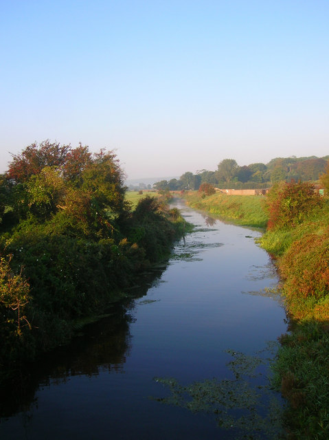 Glynde Reach A tributary of the Ouse that forms the main drain for the Laughton Levels. Viewed from the road bridge.